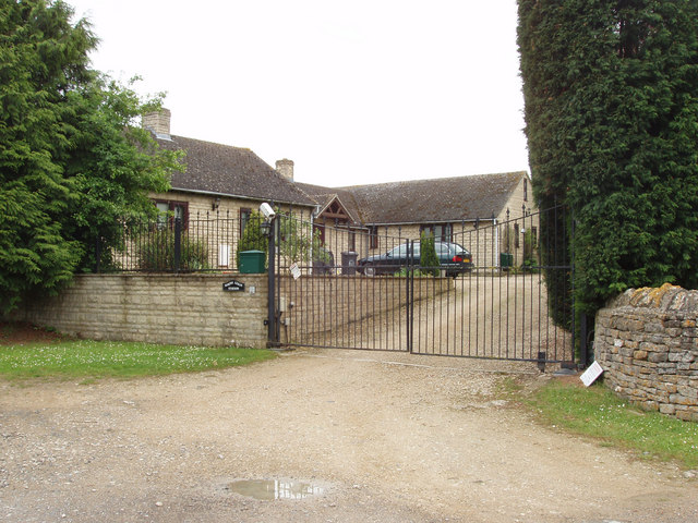 House on the site of South Leigh railway station, Oxfordshire